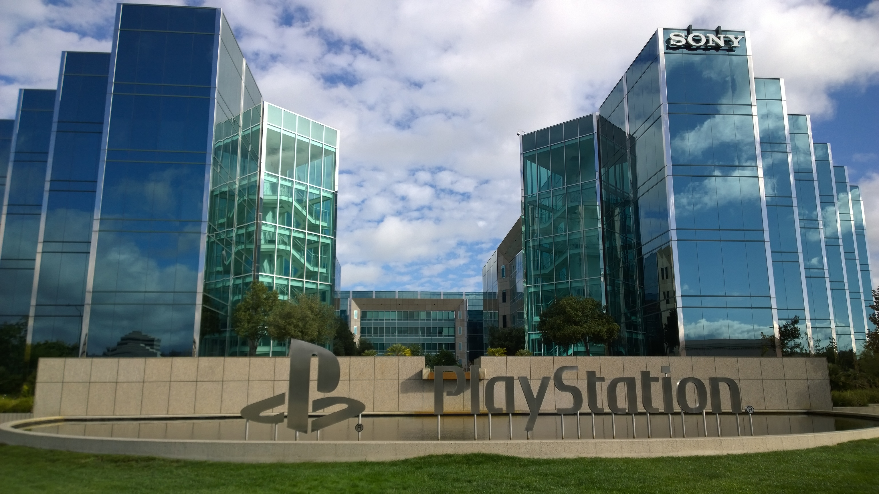 Sony Interactive Entertainment headquarters in San Mateo, California.